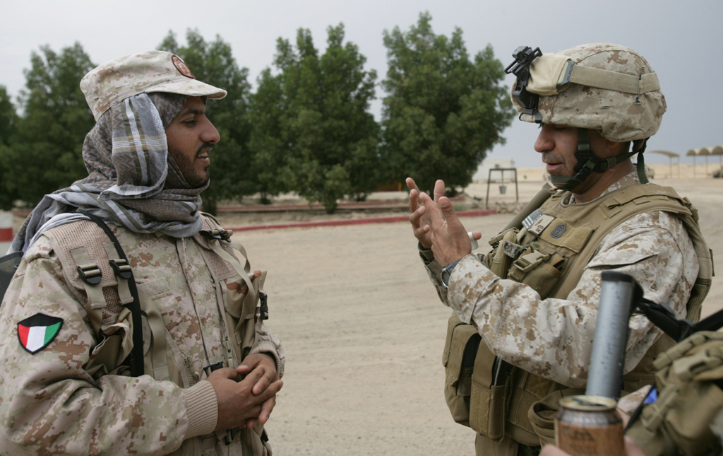 First Sergeant Felix Acosta, weapons company 1st Sgt., speaks with a Kuwaiti soldier guarding an entrance to Bubiyan Island Nov. 21 where Marines and Sailors with the 11th Marine Expeditionary Unit practiced moving from ship to shore on landing crafts Nov. 20-24.